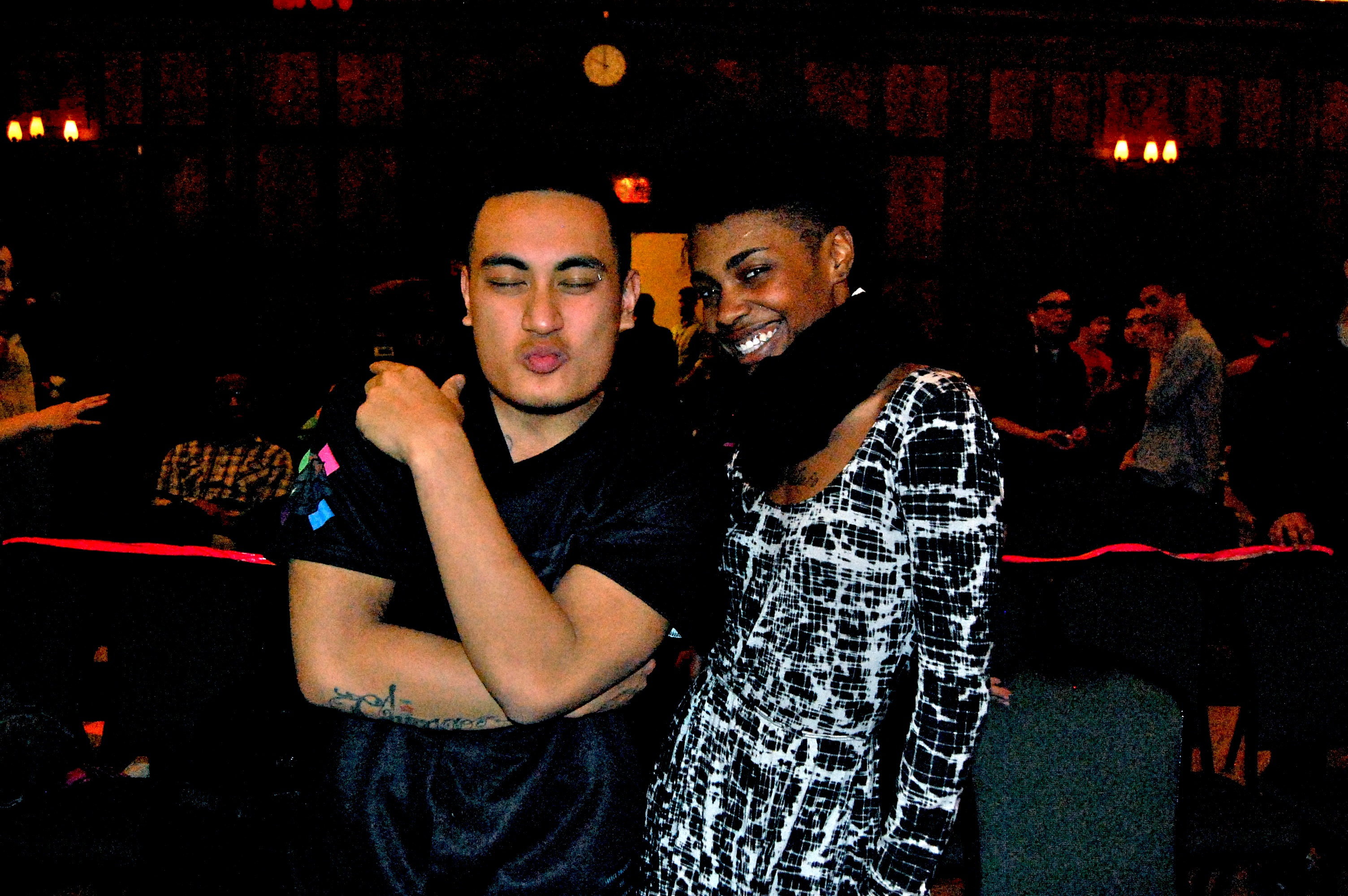 Judges Niko Tumamak and LaTonya Swann at UW-Madison Dance Competition